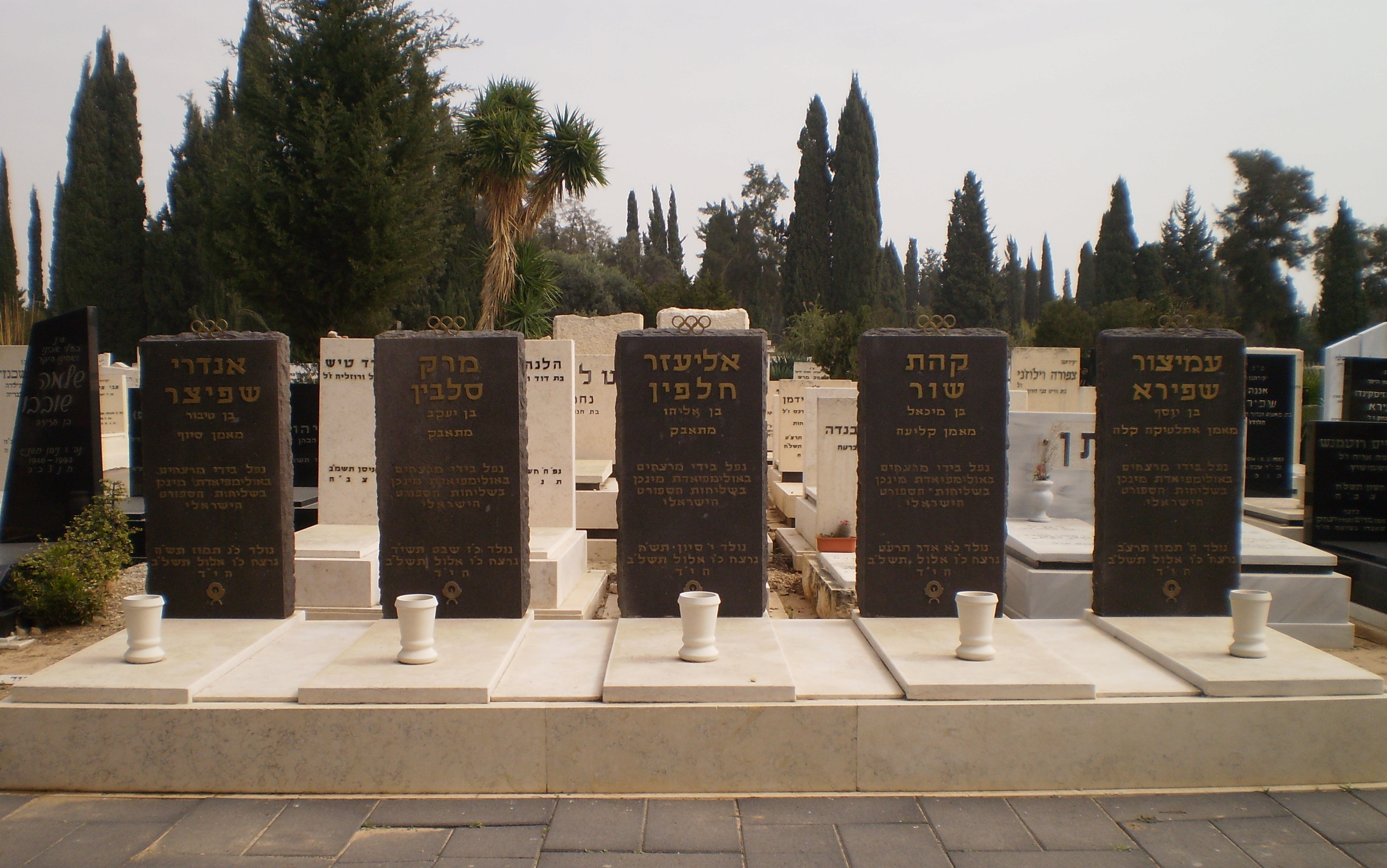 Graves of five victims of the Munich massacre at the Kiryat Shaul Cemetery, Tel Aviv, Israel. From left to right: André Spitzer, Mark Slavin, Eliezer Halfin, Kehat Shorr and Amitzur Schapira.